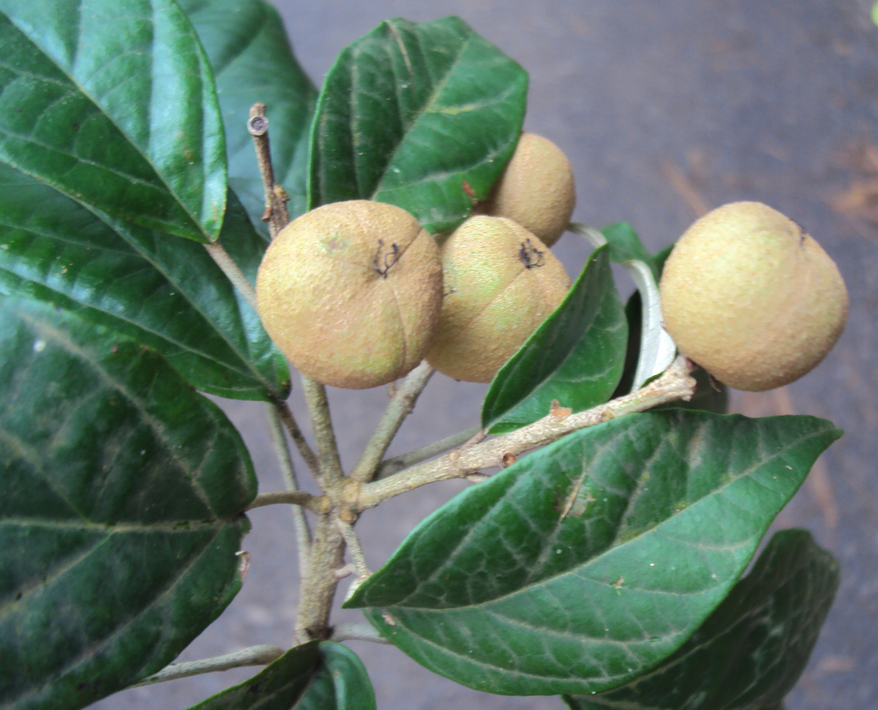 Croton malabaricum